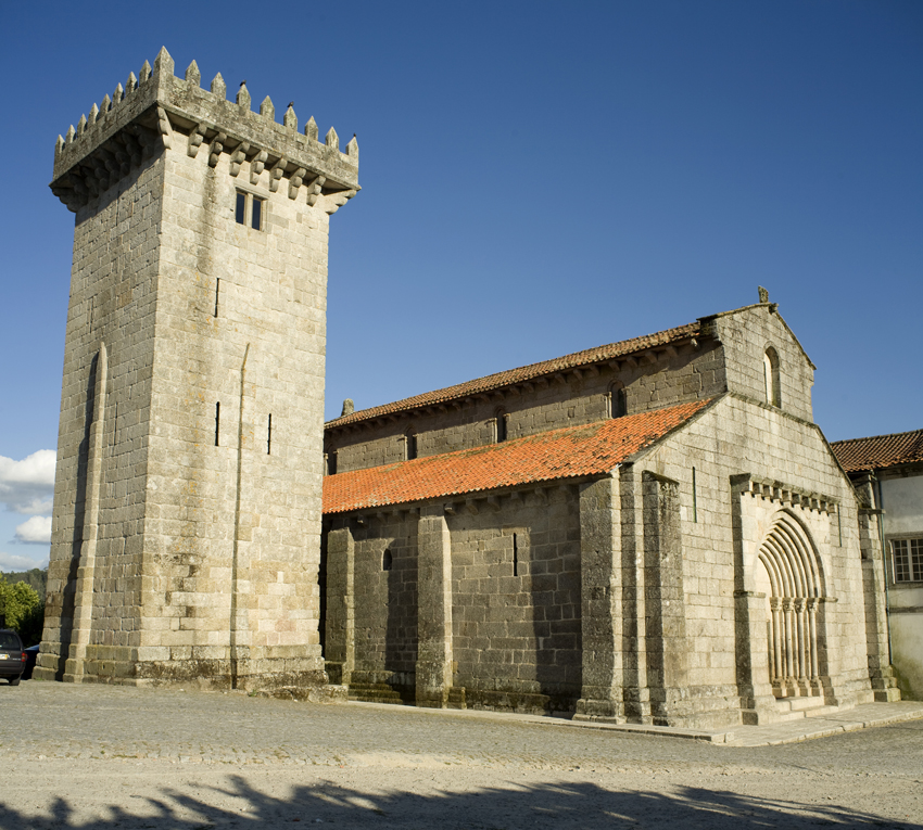 This file was uploaded for Wiki Loves Monuments in Portugal with the unique identifier 69880.